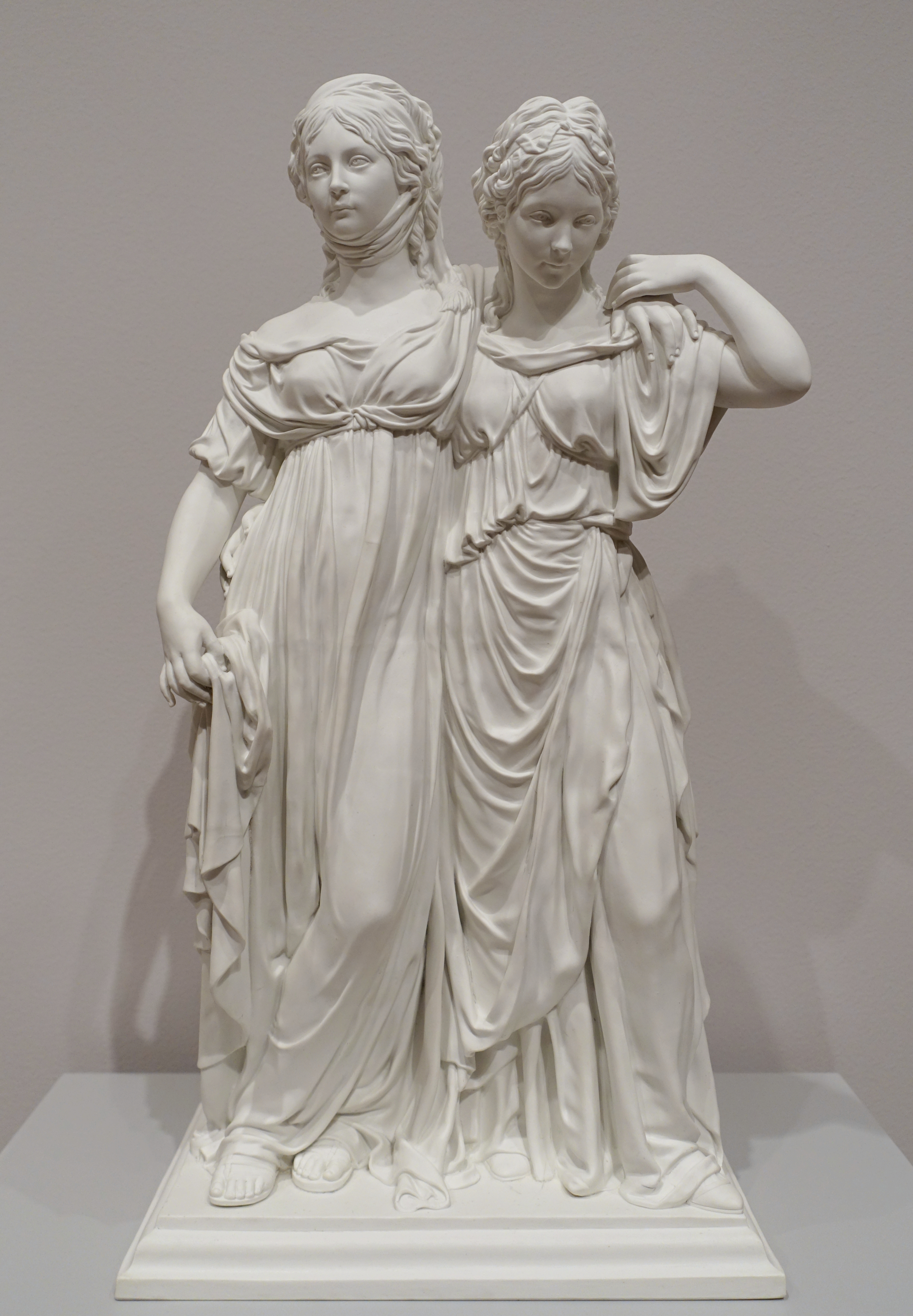 Prinzessinnengruppe (Schadow) in the Fogg Art Museum, Harvard University, Cambridge, Massachusetts, USA. This artwork is in the public domain because the artist died more than 70 years ago